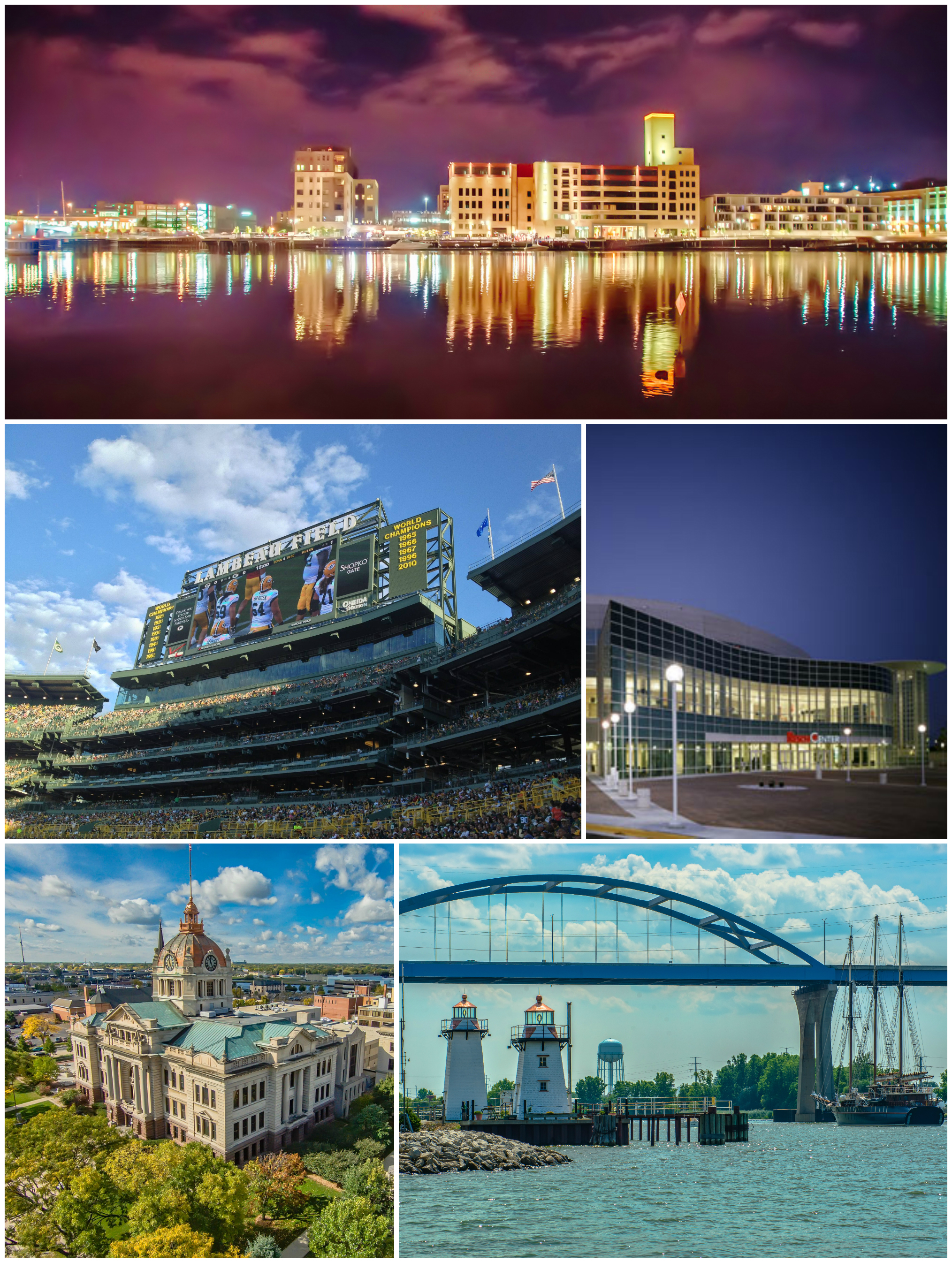 Green Bay photo montage